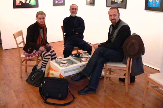 Åsa Ekström, Hideshi Hino and Fredrik Strömberg, at an exhibition with Hino's works.